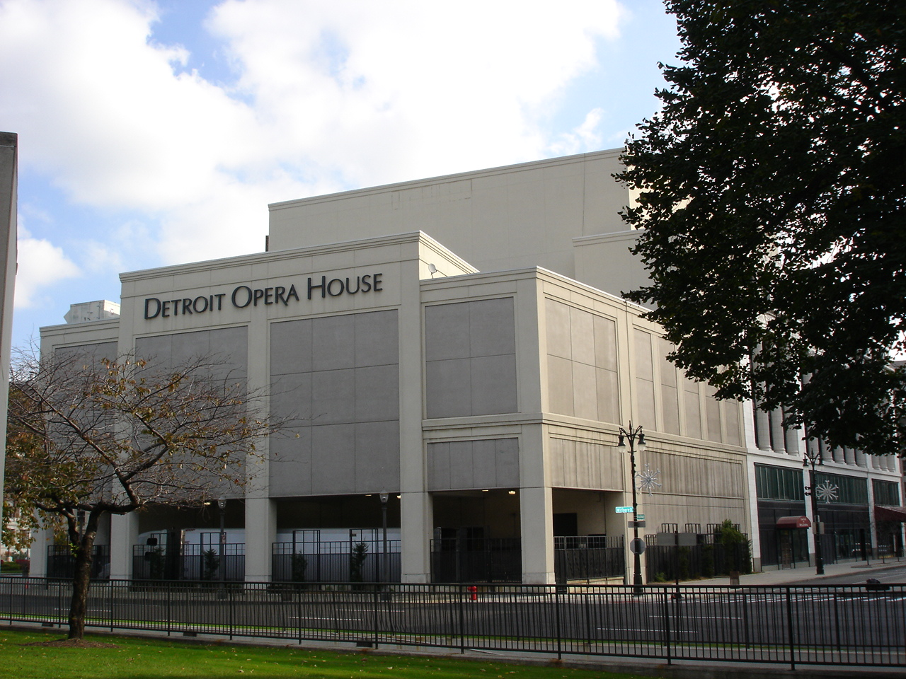 Detroit Opera House from Grand Circus